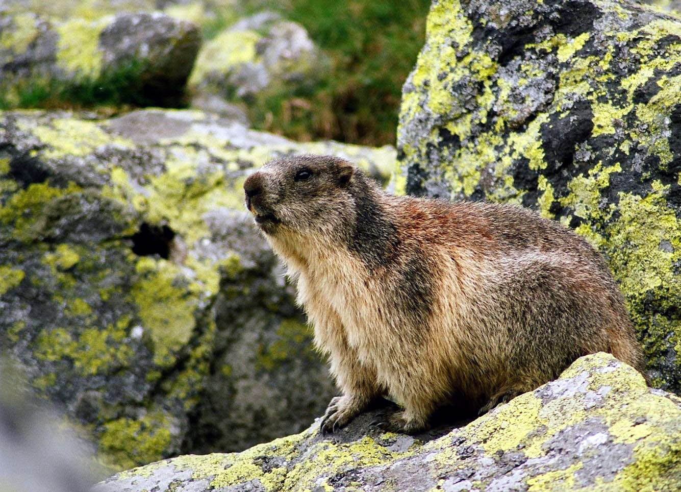 Marmota marmota latirostris in Veľká Studená dolina; Slovakia - July, 2006.